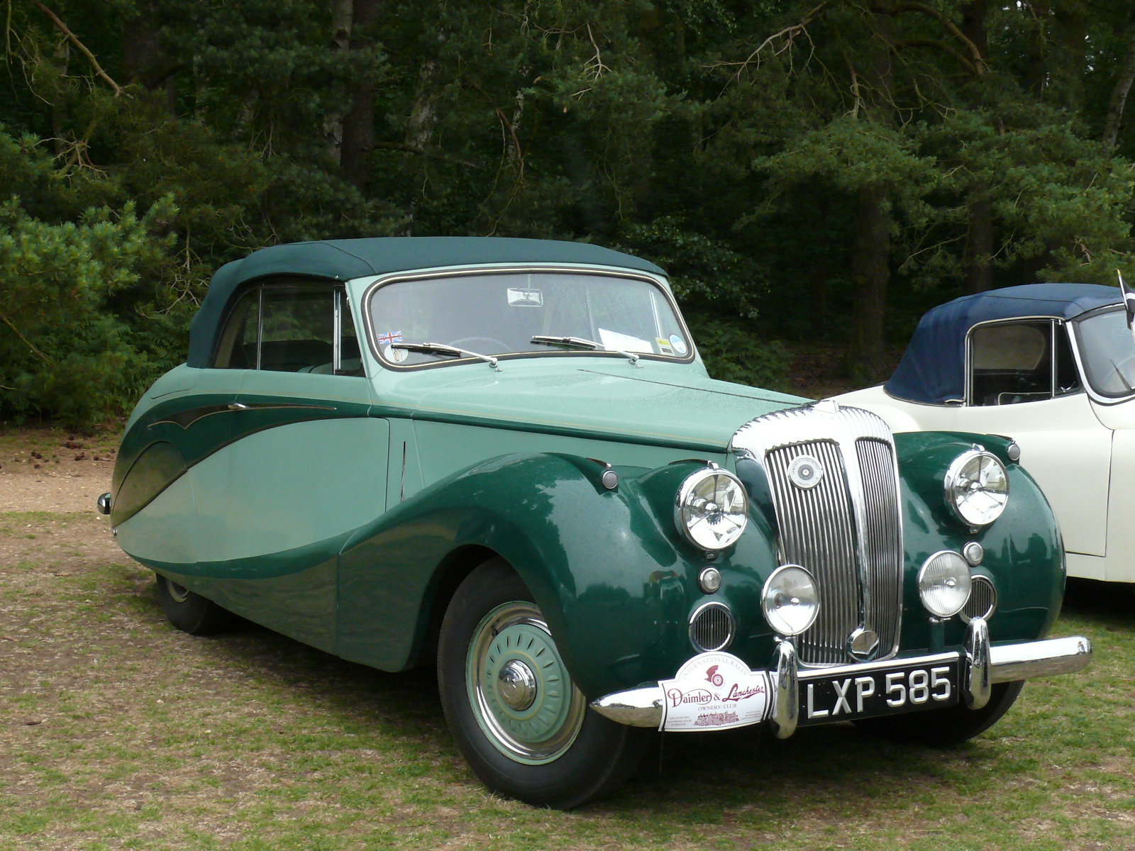 Daimler DB18 [LXP 585] Daimler & Lanchester Owners Club, International Rally, Queen's Birthday weekend, Sandringham, Norfolk Sunday 12 June 2011 (DVLA) 2522cc, reg 15 March 1951